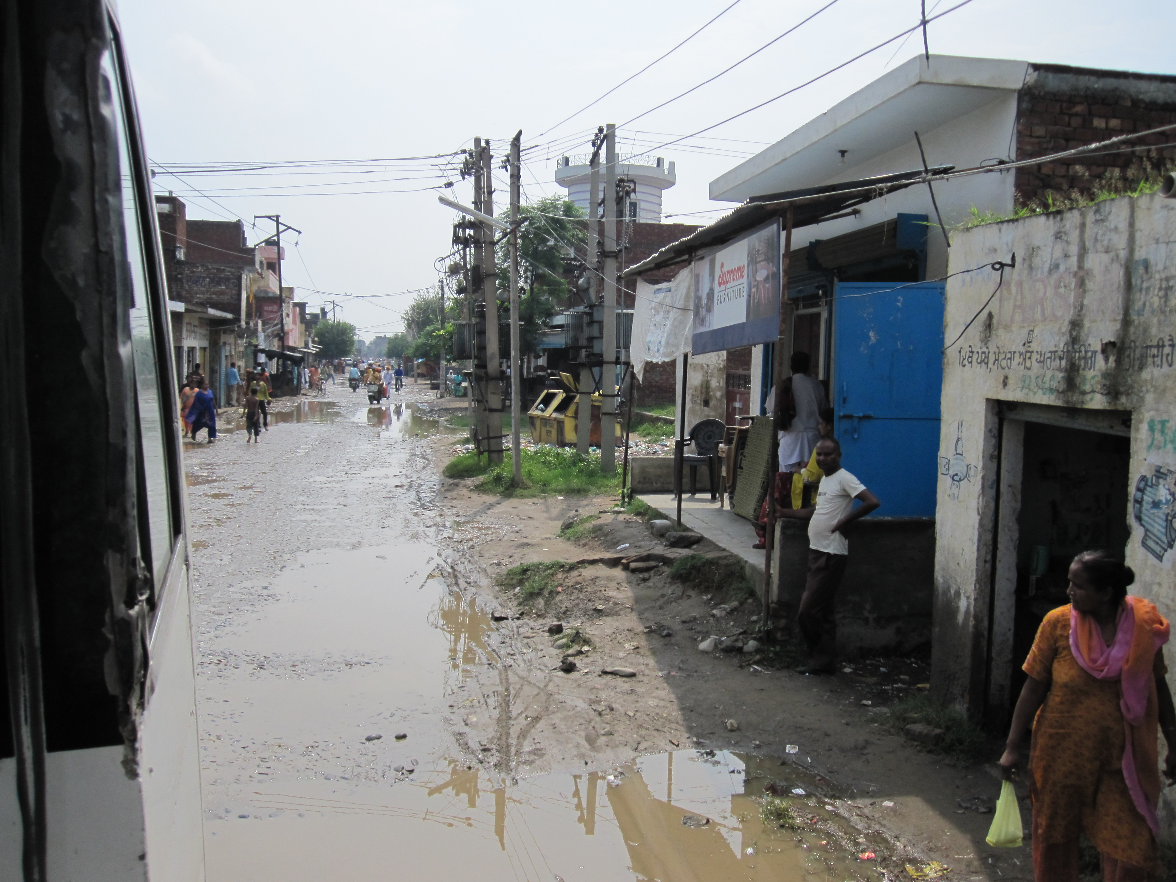 Batala, India